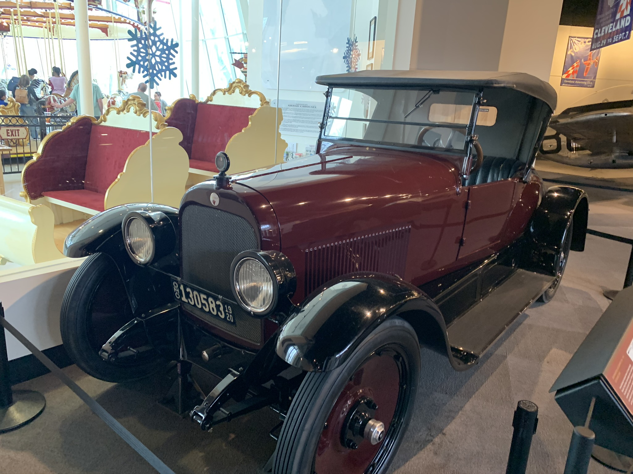 1920 Jordon at Crawford Auto-Aviation Museum